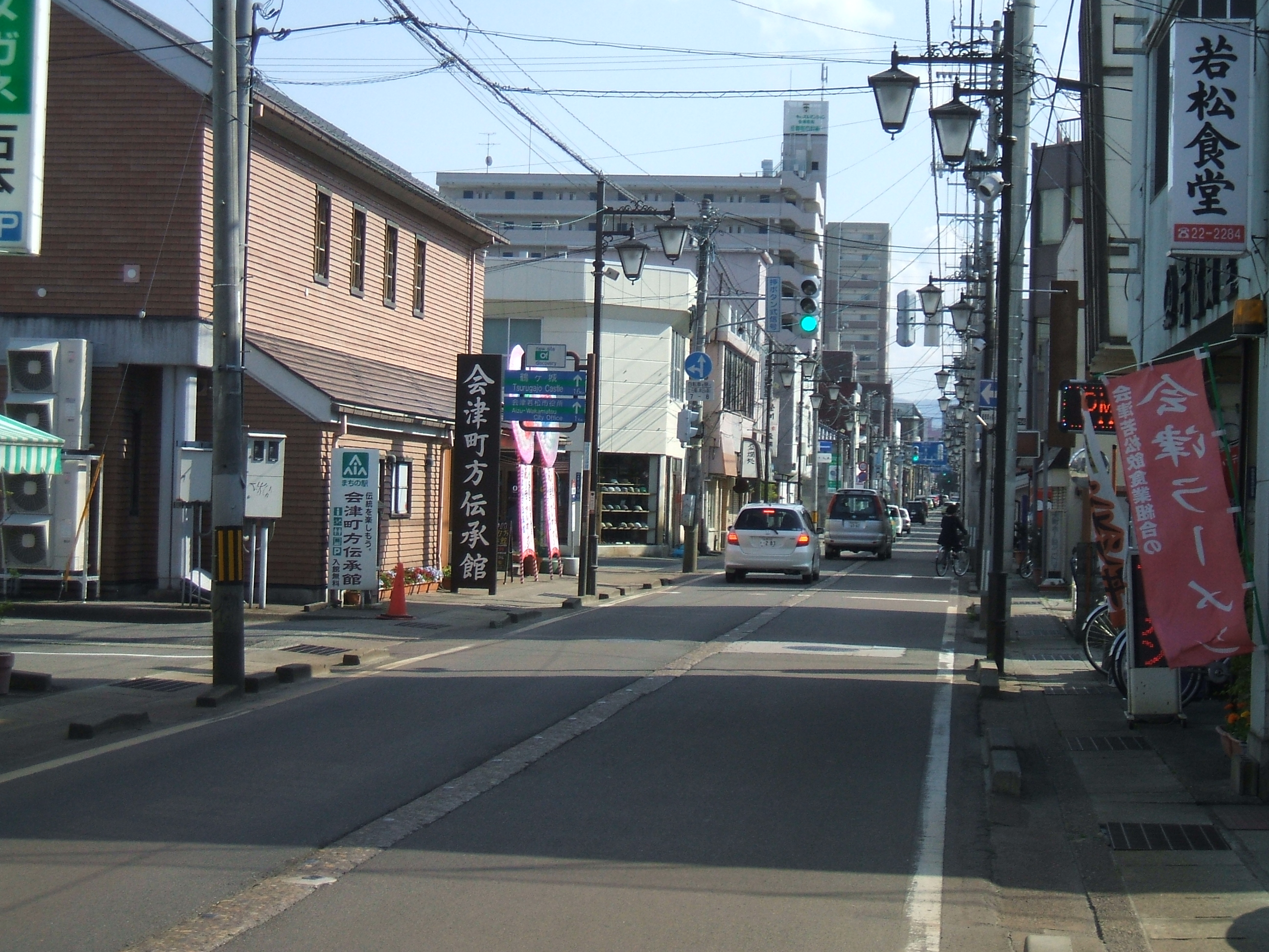 This is the "Aizu Machikata Densyokan"